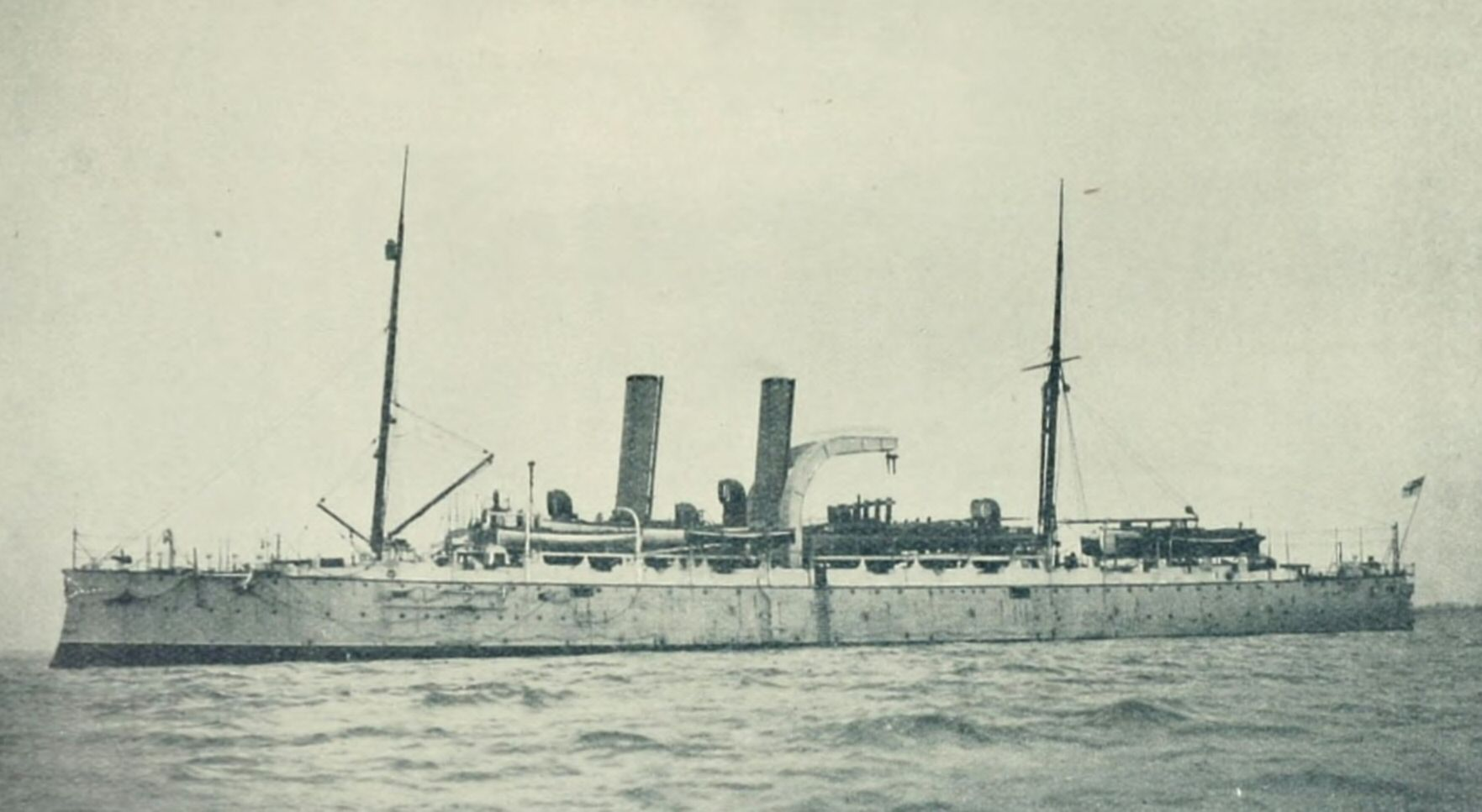 Original Caption : H.M. steel twin-screw torpedo depot ship Vulcan